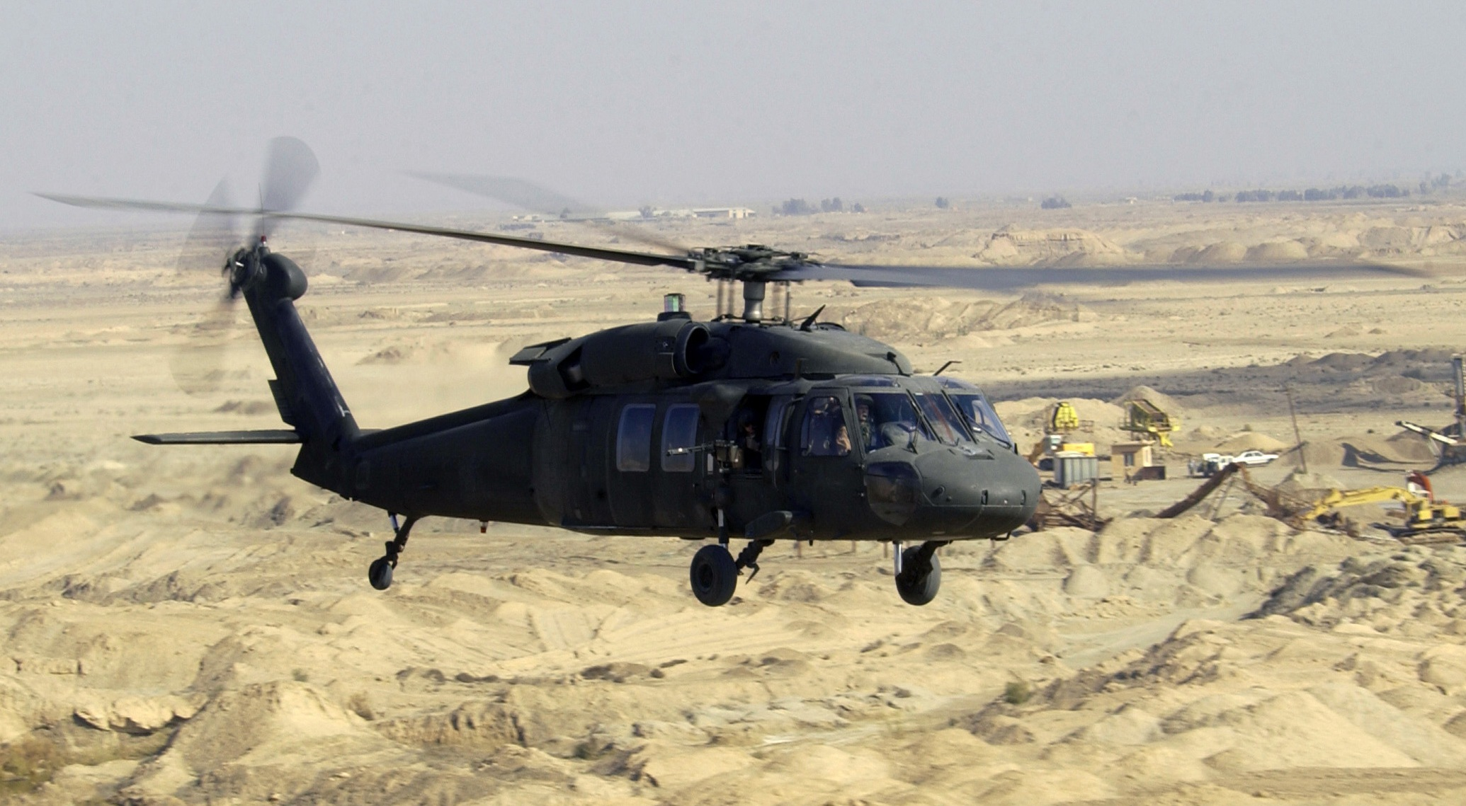 UH-60L Blackhawk helicopter flies a low-level mission over Iraq